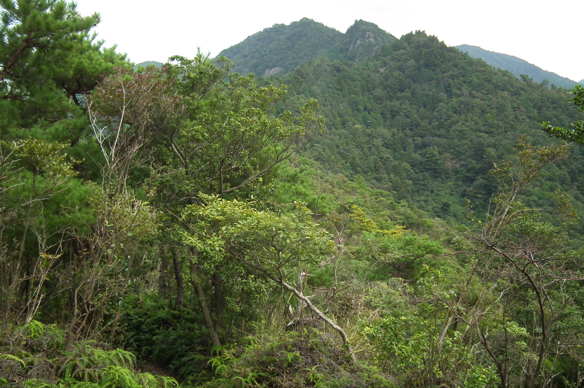 Mount Haku (Haku-san) in Nishiwaki City, Hyogo Prefecture, Japan